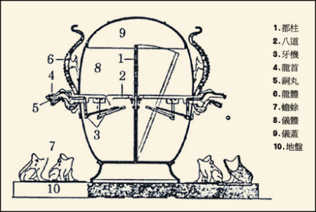 Wang Zhenduo's reprodution of Heng's seismoscope